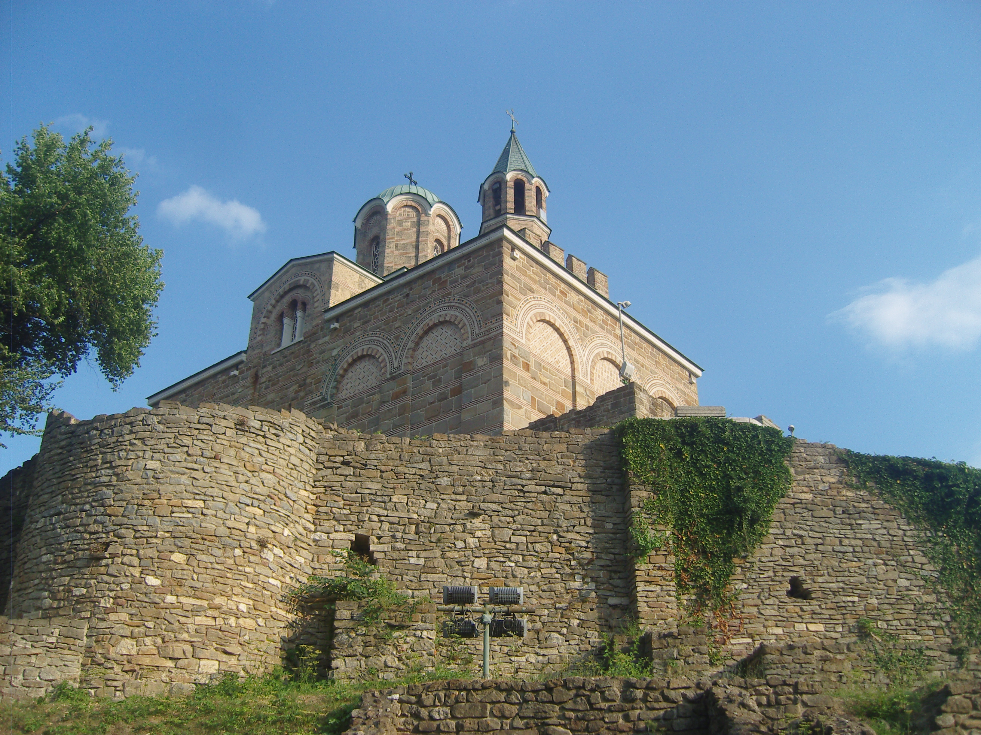 Tsarevets, Veliko Tarnovo, Bulgaria